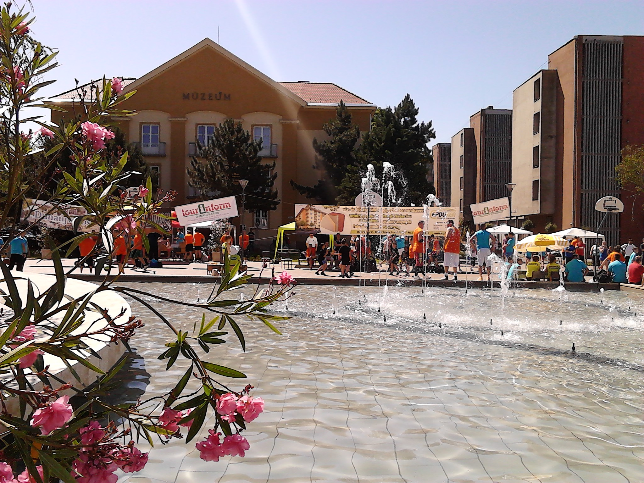 Dunaujvaros Happening